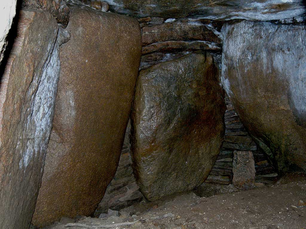 Site Name: Åstrup Deelhøj Jættestue Alternative Name: Dilhøj Country: Denmark County: Vejle Type: Passage Grave Nearest Town: Horsens Nearest Village: Åstrup Latitude: 55.773240N Longitude: 9.962493E